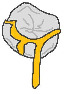 The Prummelattachment for a bridge in the lowe jaw of the mouth